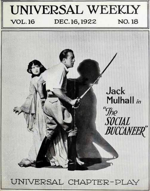 Still from the American film serial The Social Buccaneer (1923) with Jack Mulhall and Margaret Livingston, on the cover of the December 16, 1922 Universal Weekly.